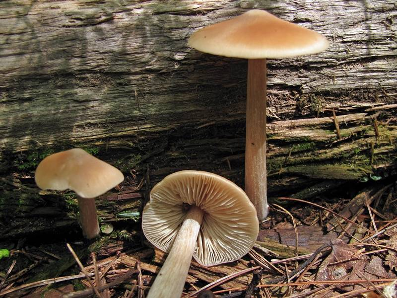 Entoloma strictius Location: Oneida Co., New York, USA For more information about this, see the observation page at Mushroom Observer.